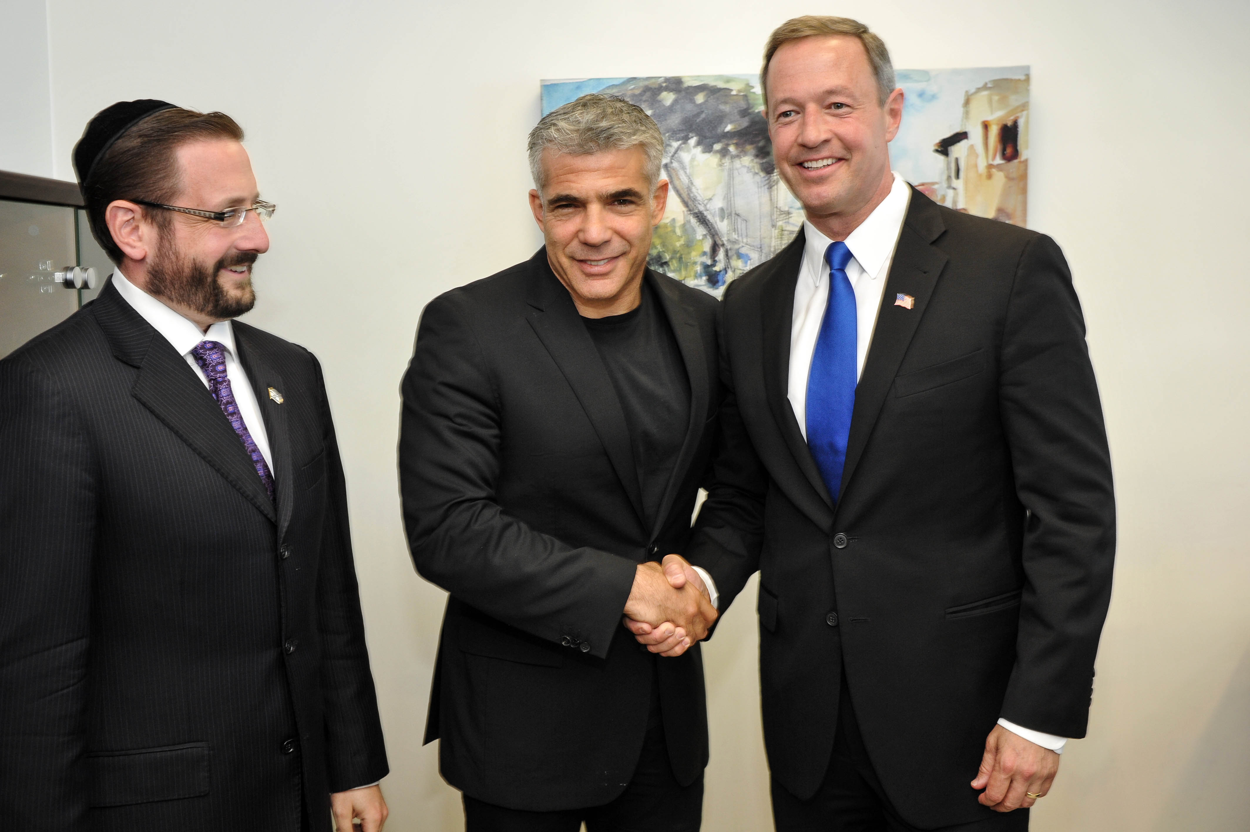 Tel Aviv Stock Exchange, Yair Lapid, US Ambassador, Reception by staff at Israel